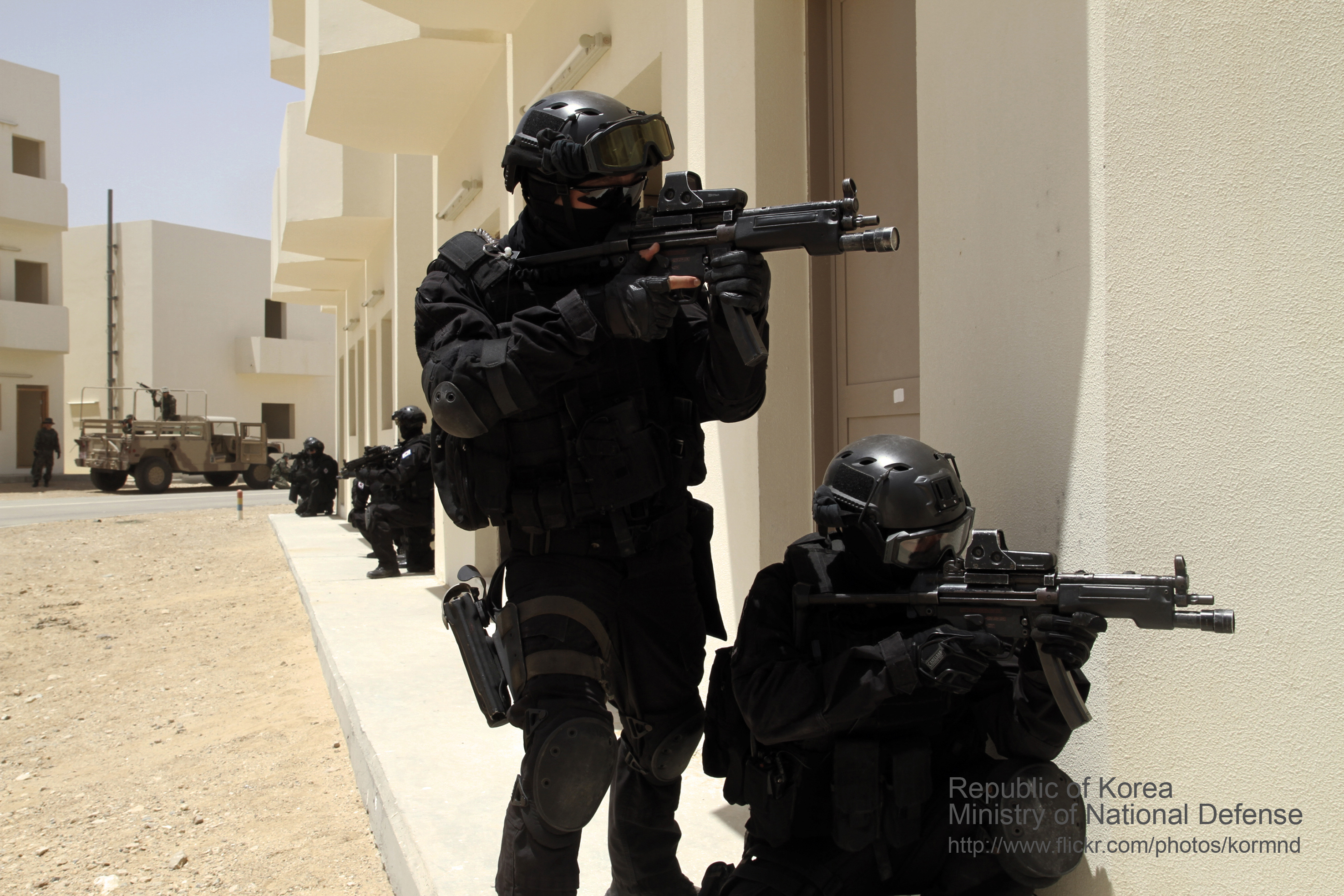 Republic of Korea The Akh Unit in UAE